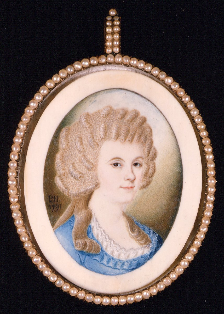 Mrs. John Faucheraud Grimke (Mary Moore Smith) Artist: Henri, Pierre Date: 1791 Artist's Dates: act. 1788 - 1818 Artist's Nationality: French Medium: Watercolor Support: Ivory Dimensions: 2 X 1 1/2 Inches Sitter's Dates: (1764-1839) Signature: P.H./ 1791 Signature Location: bottom center Credit: Gift of Victor Morawetz Period: 18th century Accession Number: 1937.002.0003